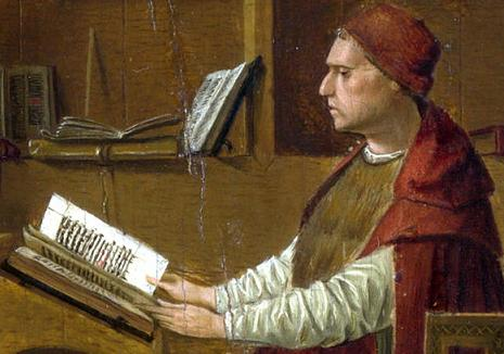 St Jerome in Antonello da Messina's painting St. Jerome in His Study